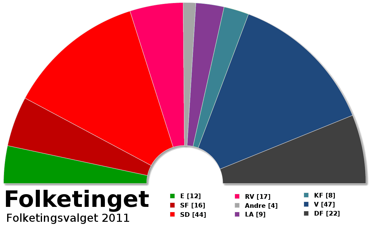 Composition of the Danish parliament after the 2011 election